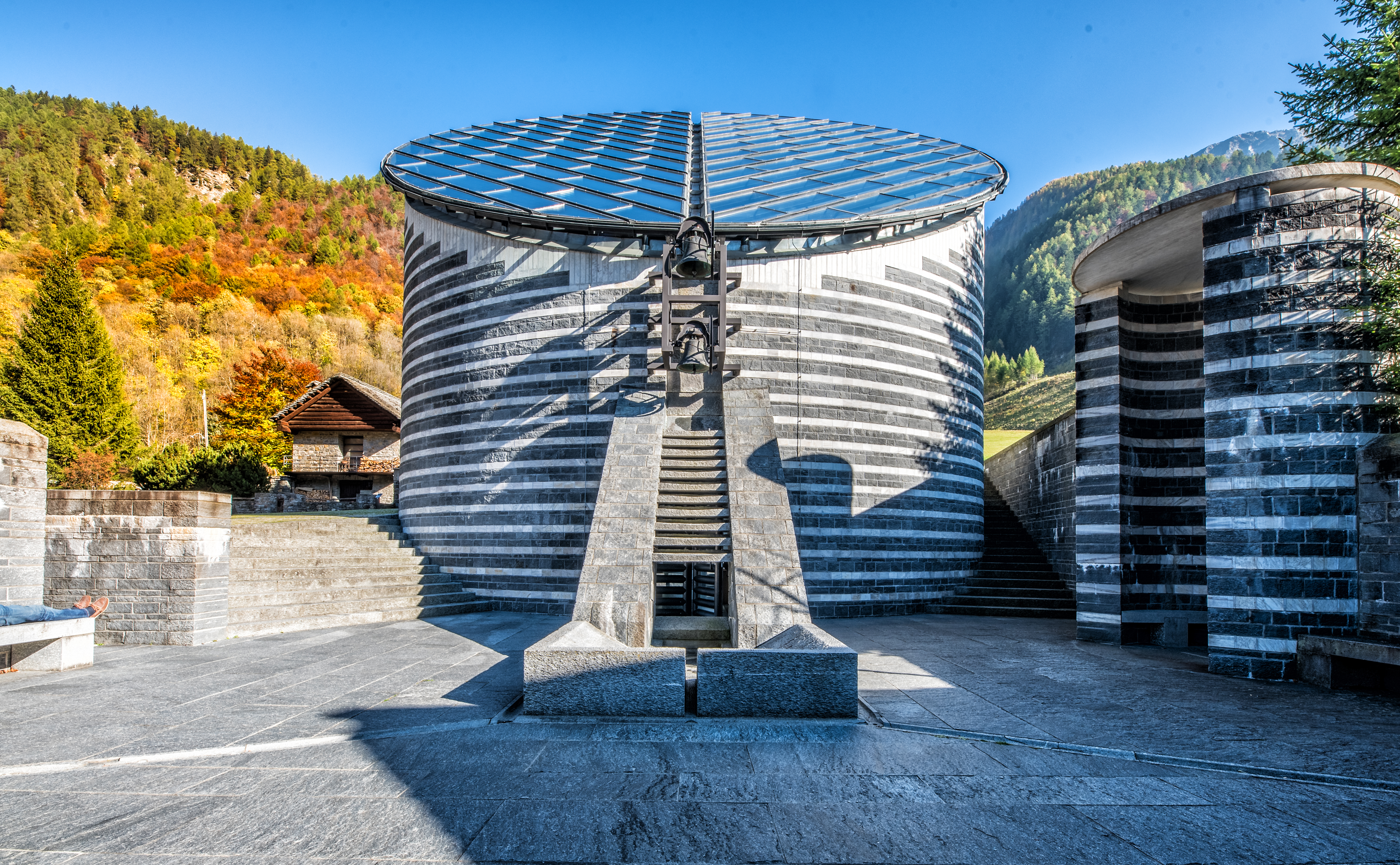 Church of San Giovanni Battista by Mario Botto in Mogno, Ticino, Switzerland